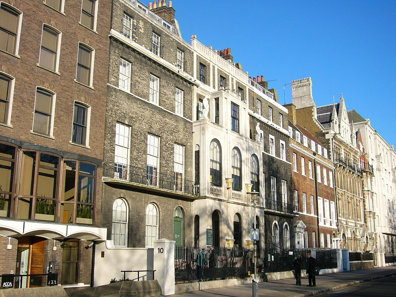 The Soane Museum, Sir John Soane's house and studio, on Lincoln's Inn Fields in the Borough of Camden, London , England.